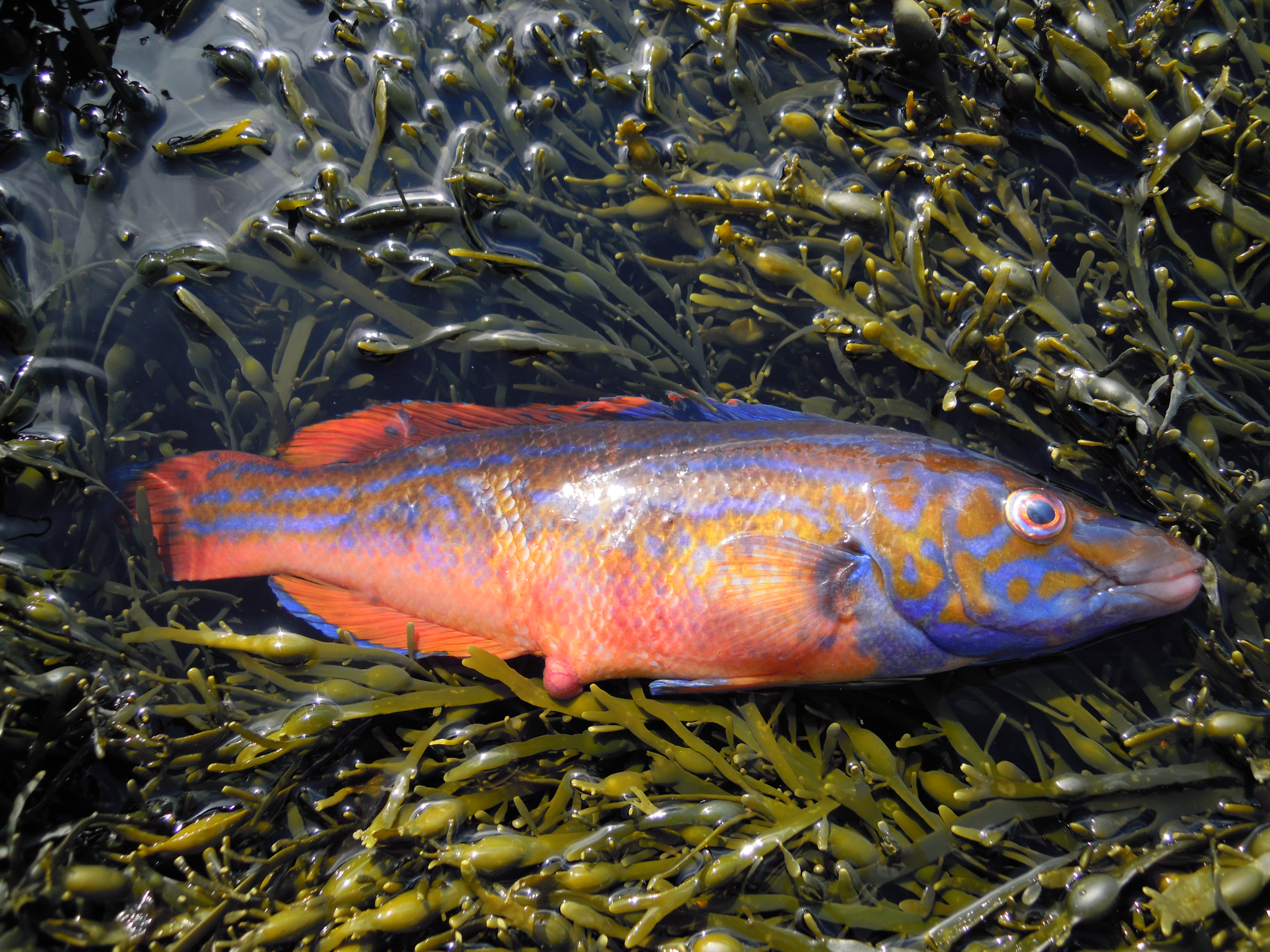 Labrus mixtus (the Cuckoo Wrasse ) Ramsøy in Norway